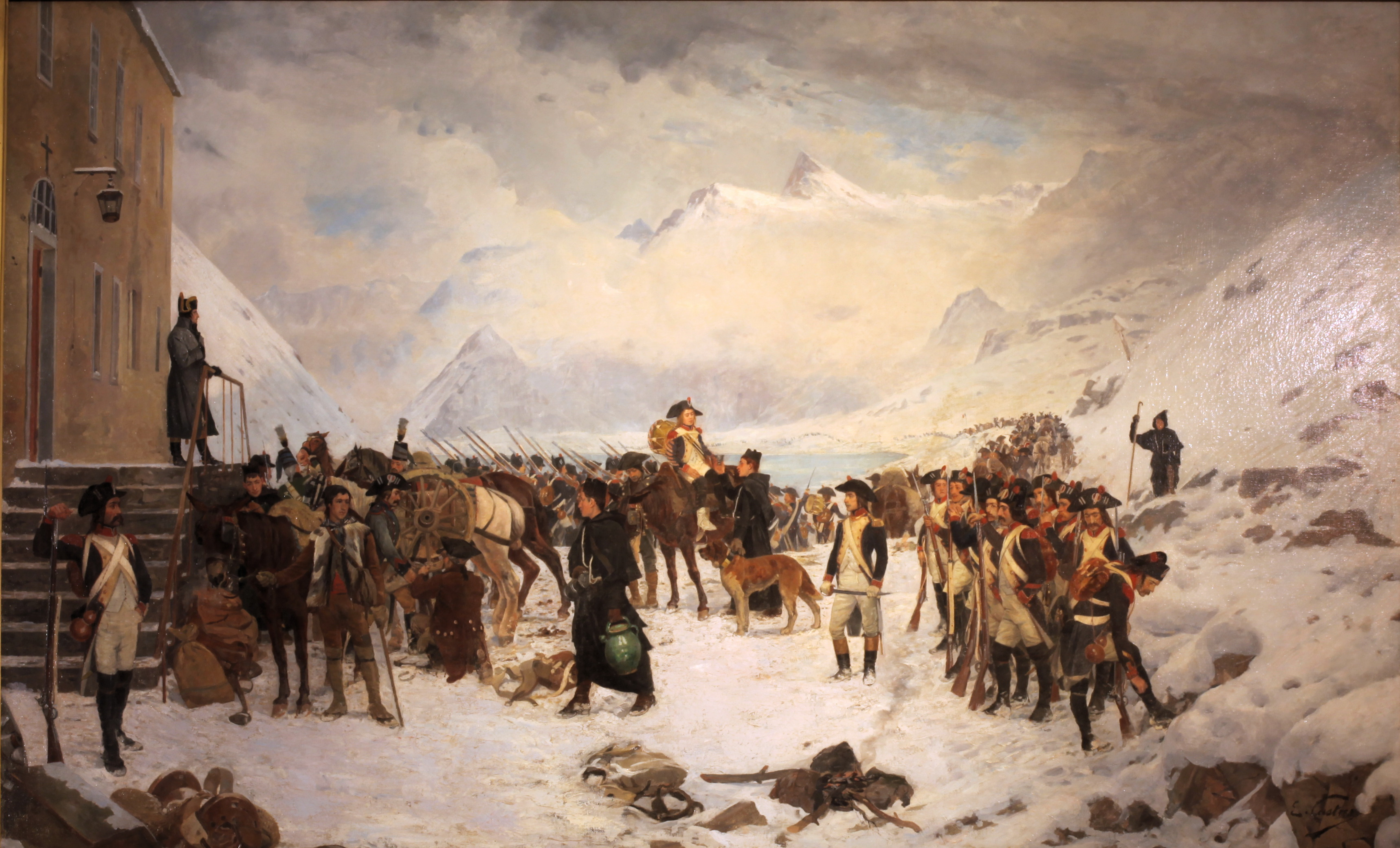 Napoleon passing the Great St Bernard Pass, by Edouard Castres. Oil on canvas, on display at Morges military museum.